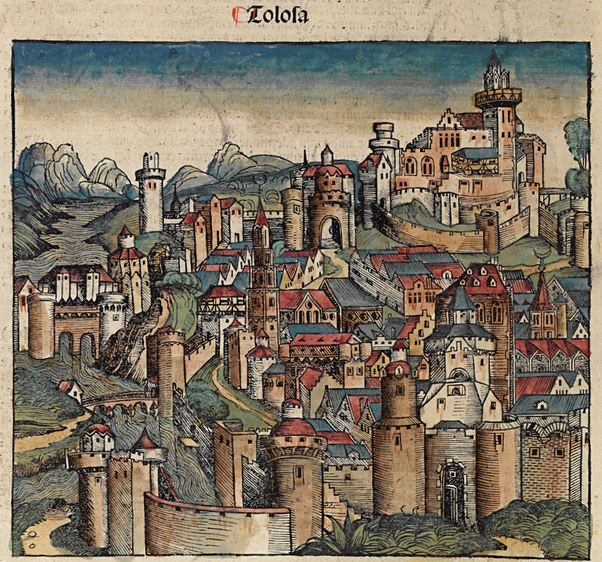 Woodcut from the Nuremberg Chronicle